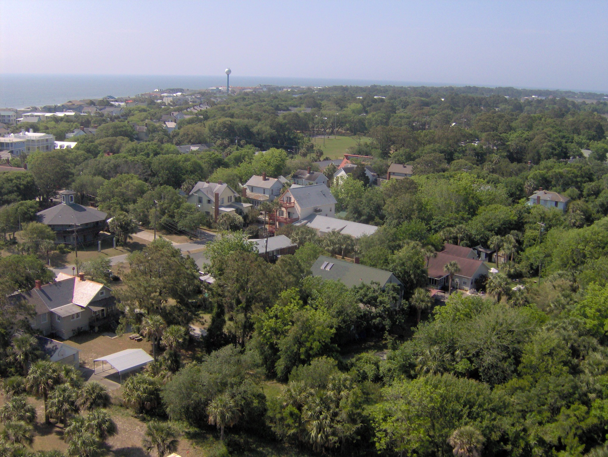 The view looking southeast from atop the Tybee Lighthouse at Tybee Island Georgia, in the southeastern United States.